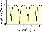 Spectrum of a 1 ms comb filter